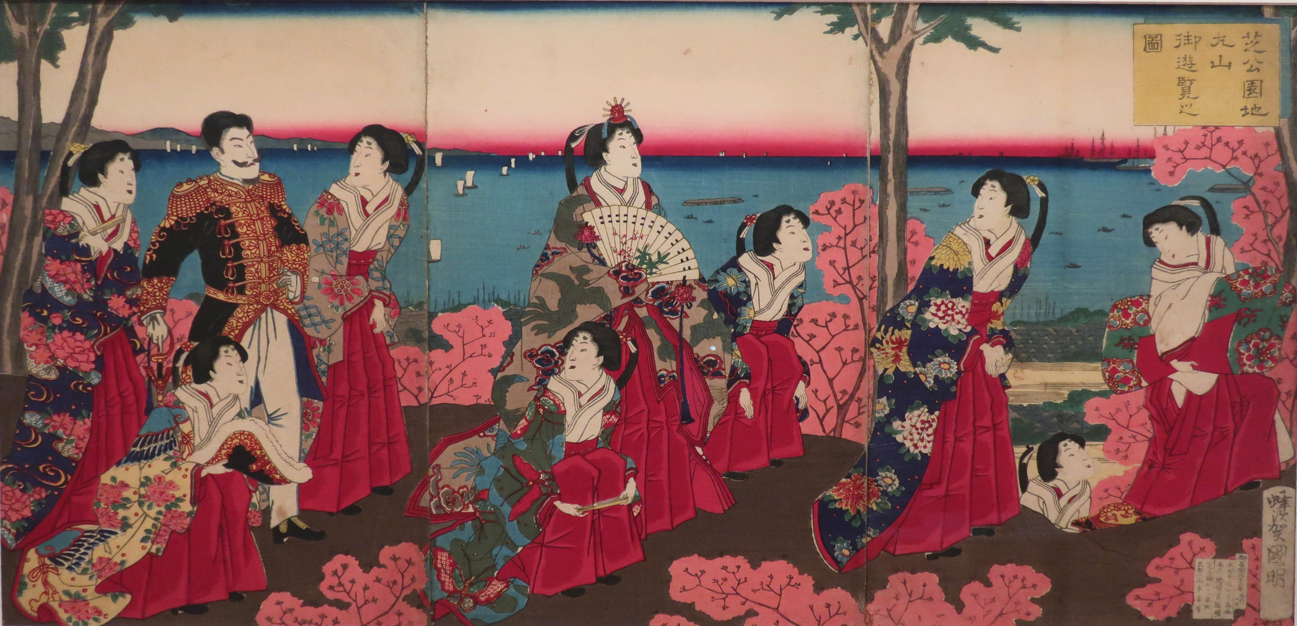 An Imperial Excursion to Maruyama in Shiba Park by Utagawa Kuniaki II, Meiji period, 1880, woodblock triptych, Honolulu Museum of Art, accession 28683